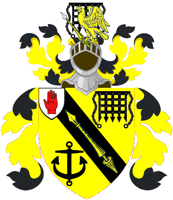 The armorial achievement of the Shakespeare baronets of Lakenham